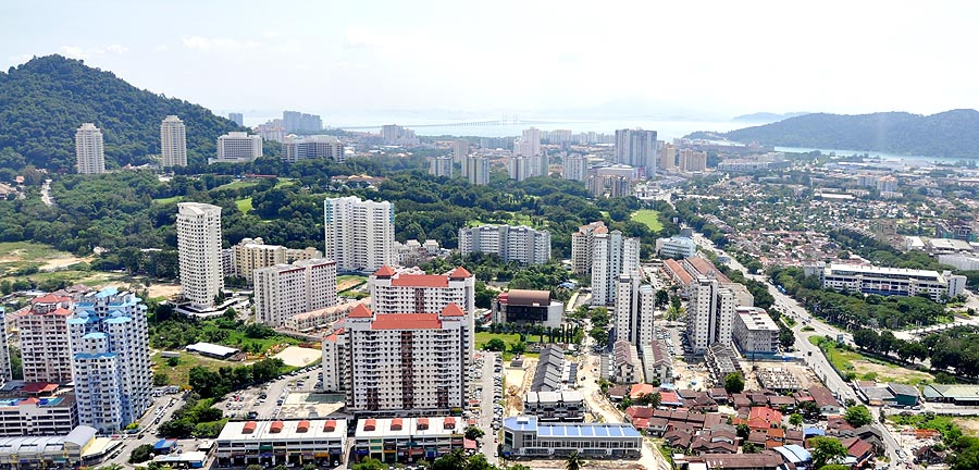 Aerial view of Penang Bayan Baru.